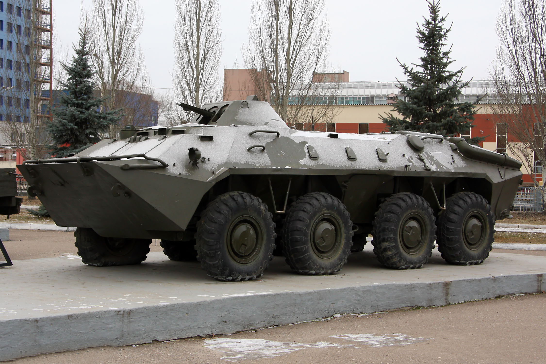 BTR-70